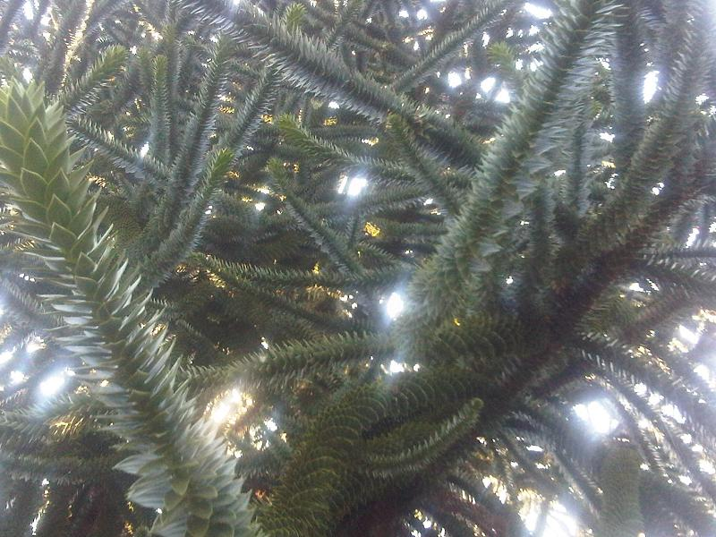 Monkey-puzzle Tree or Monkey Tail Tree (Araucaria araucana) branches in Kew Gardens.